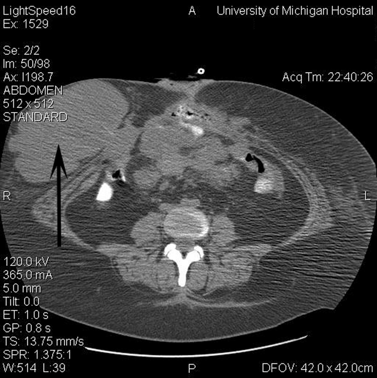 Computed tomogram of the abdomen prior to initiation of cytotoxic chemotherapy demonstrating right-sided abdominal wall soft tissue mass (16 × 9 cm) (arrow), and mesenteric soft tissue mass (7 × 5 cm).